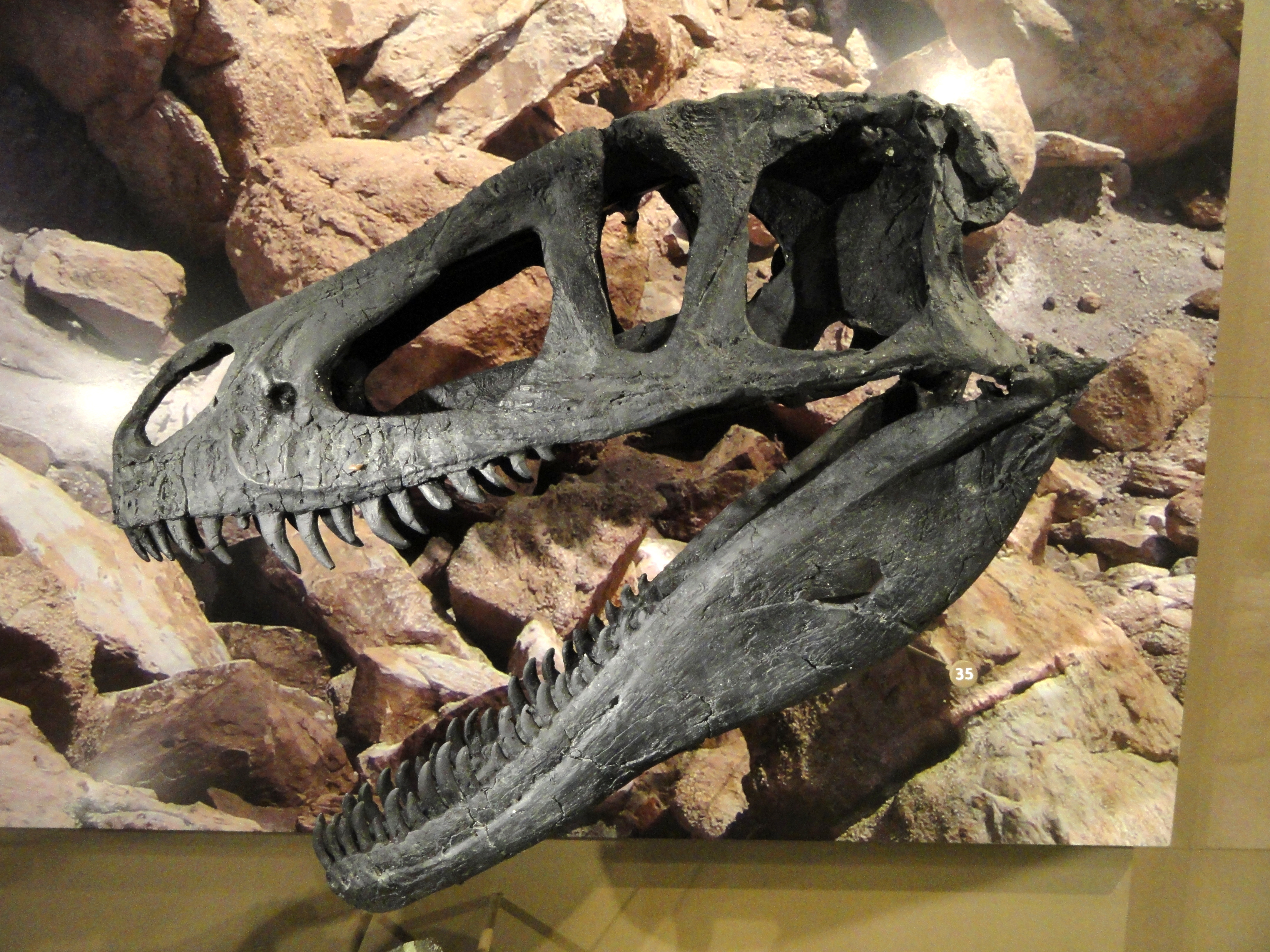 Fossil specimen in the Natural History Museum of Utah, Salt Lake City, Utah, USA.